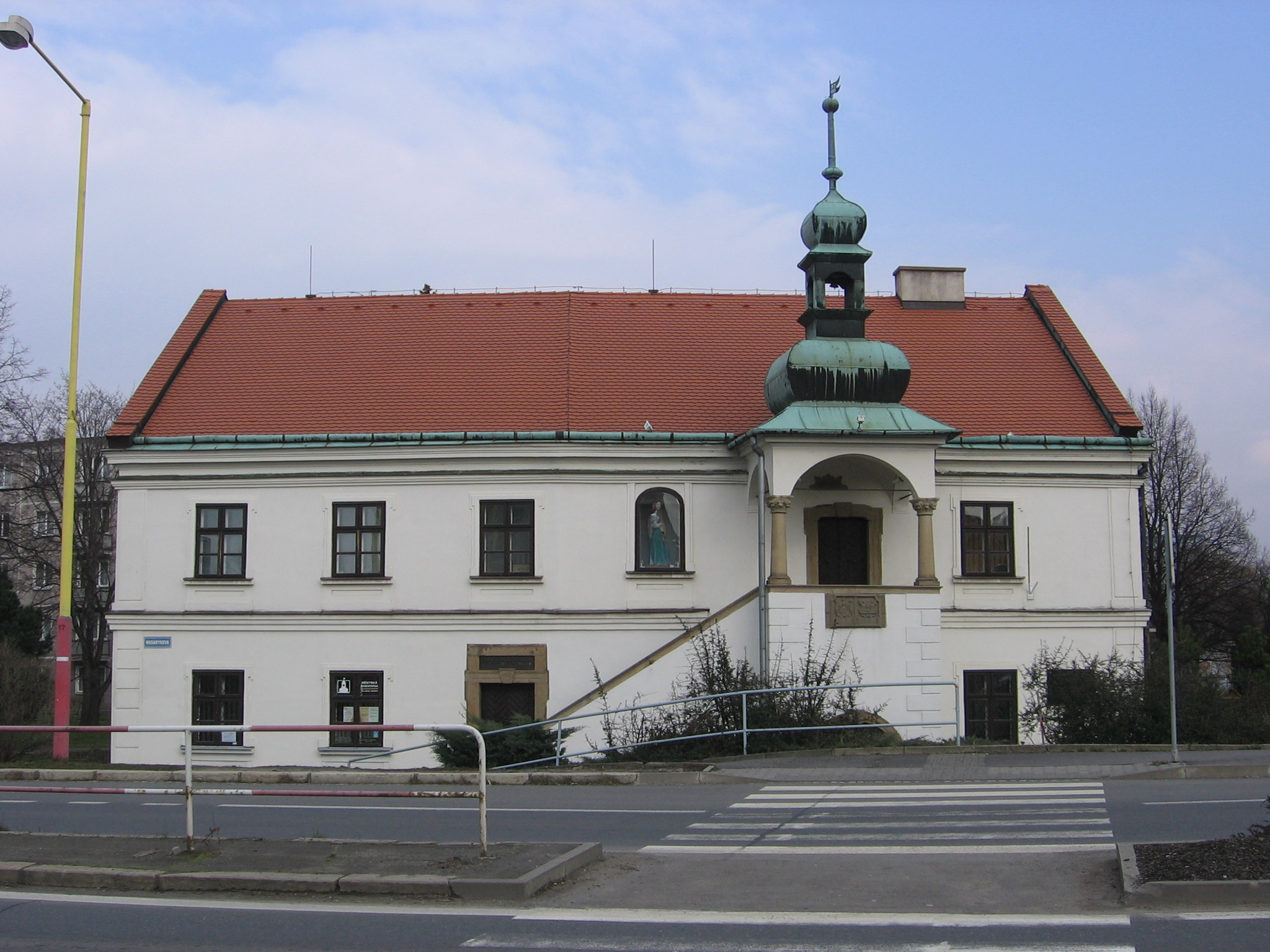 Former Townhall of Krásno in Valašské Meziříčí, the Czech Republic